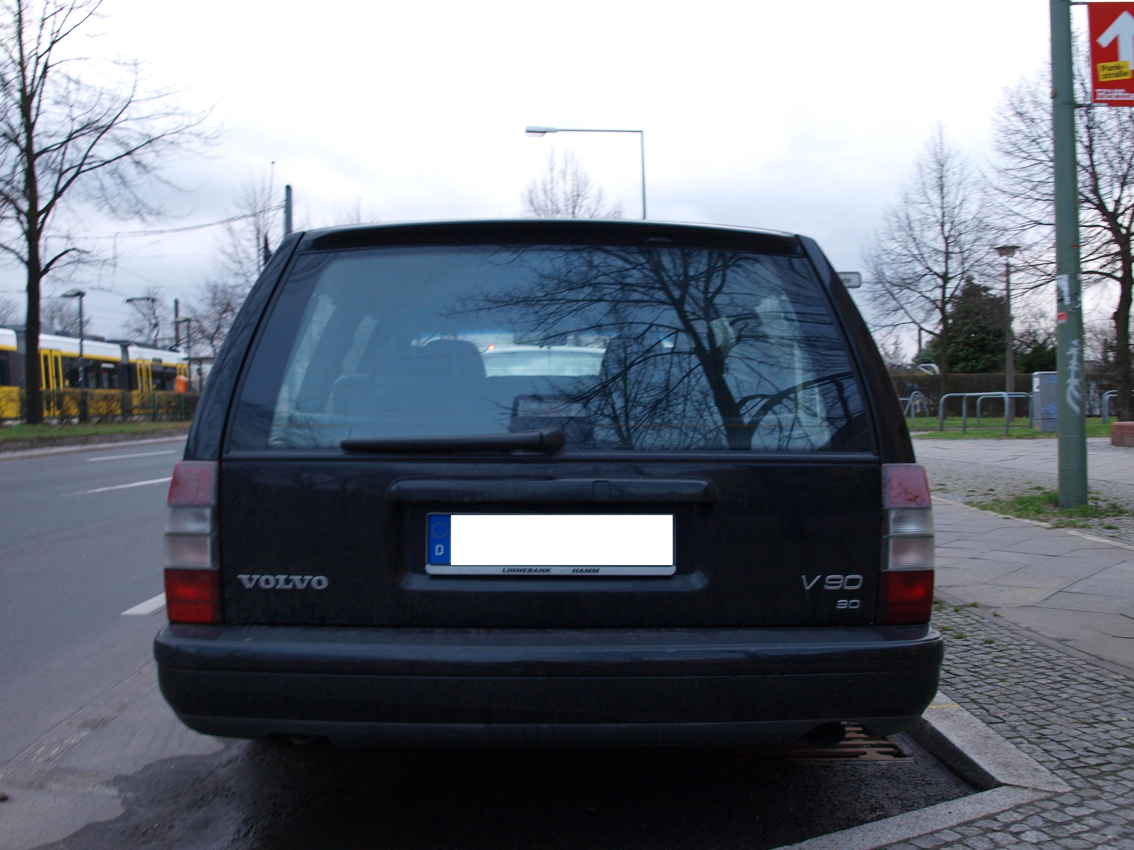 1998 Volvo V90 3.0